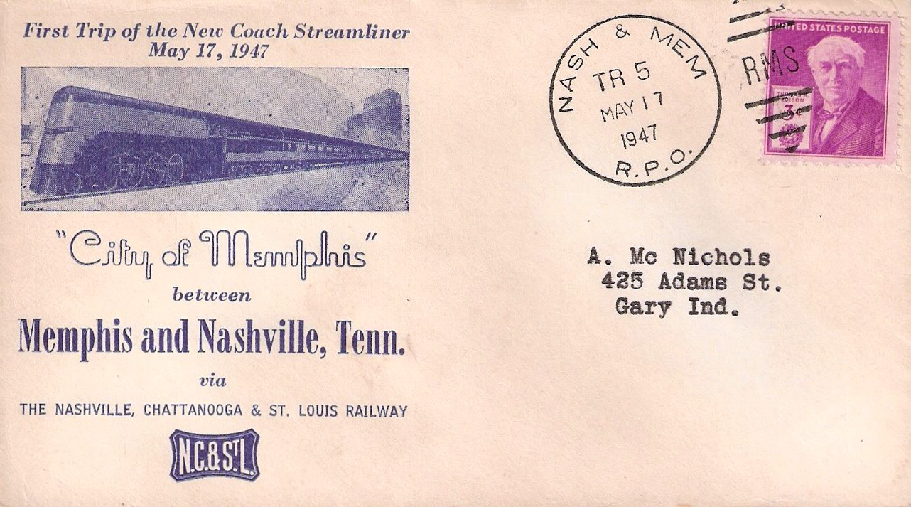 Postcard for the first streamlined run of the Nashville, Chattanooga and St. Louis Railway train City of Memphis.